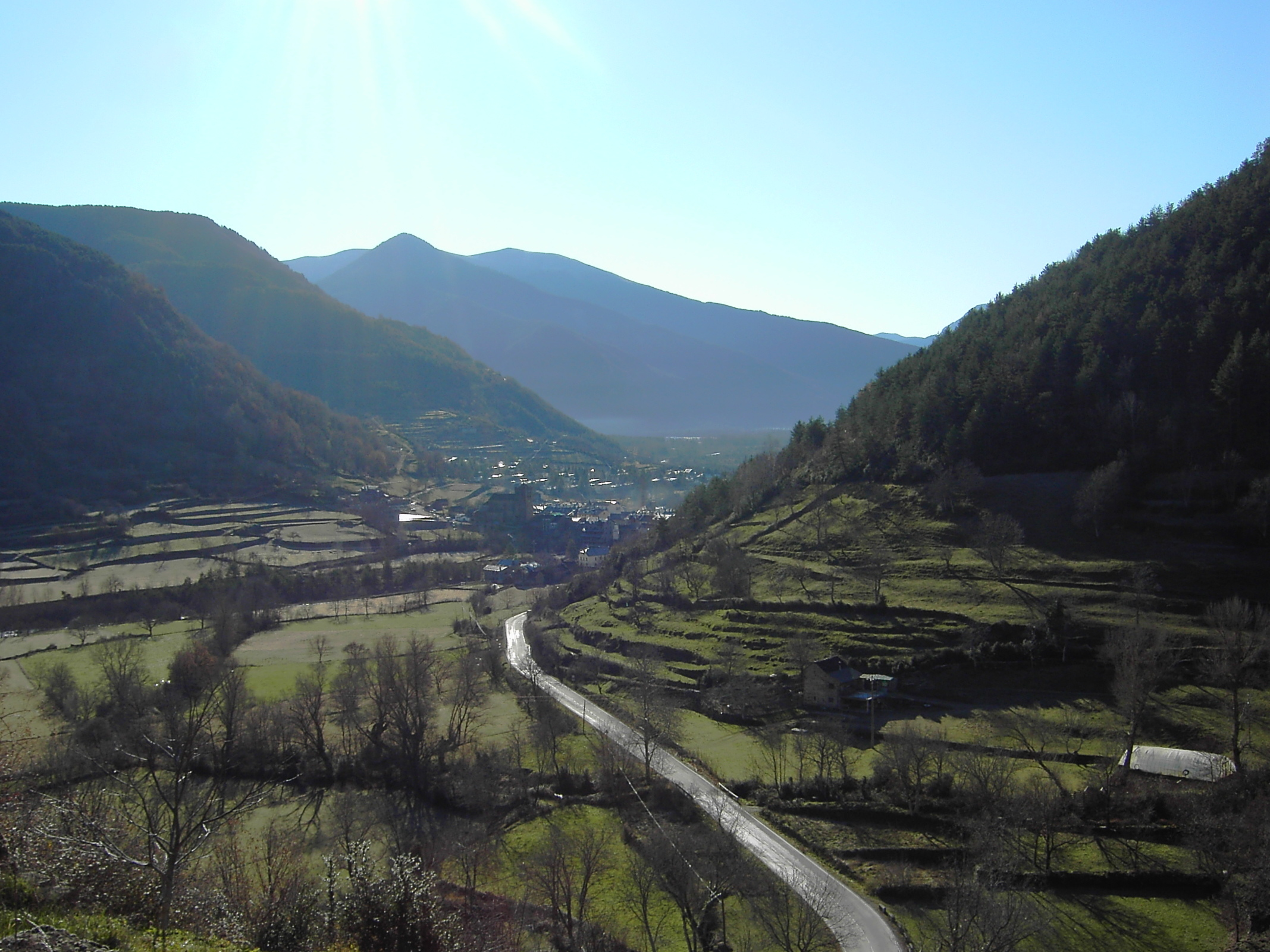 View on the Broto's Valley, on the river Ara side, with the name-giving town at the center of the picture. Huesca, Spain.